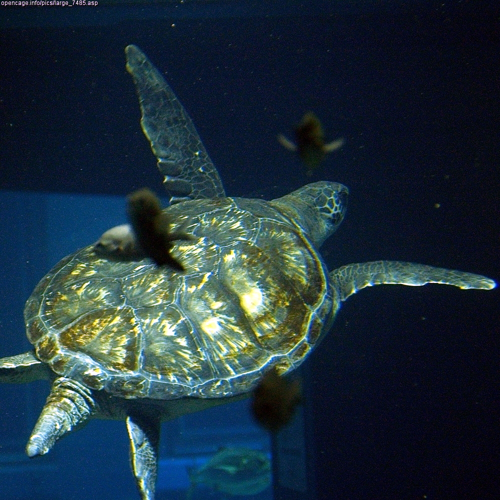 アオウミガメ Green Sea Turtle Species Chelonia mydas Familia Cheloniidae Location Osaka Kaiyukan Other photos; Copyright OpenCage